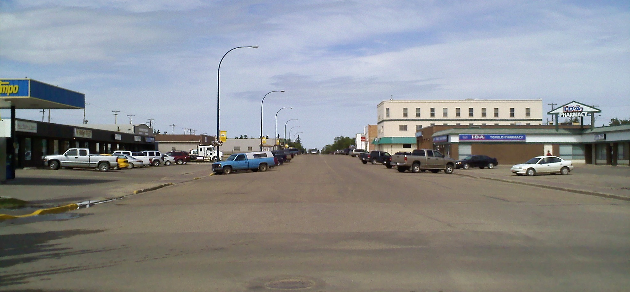 50 (Main) Street, Tofield, Alberta, from its south end.